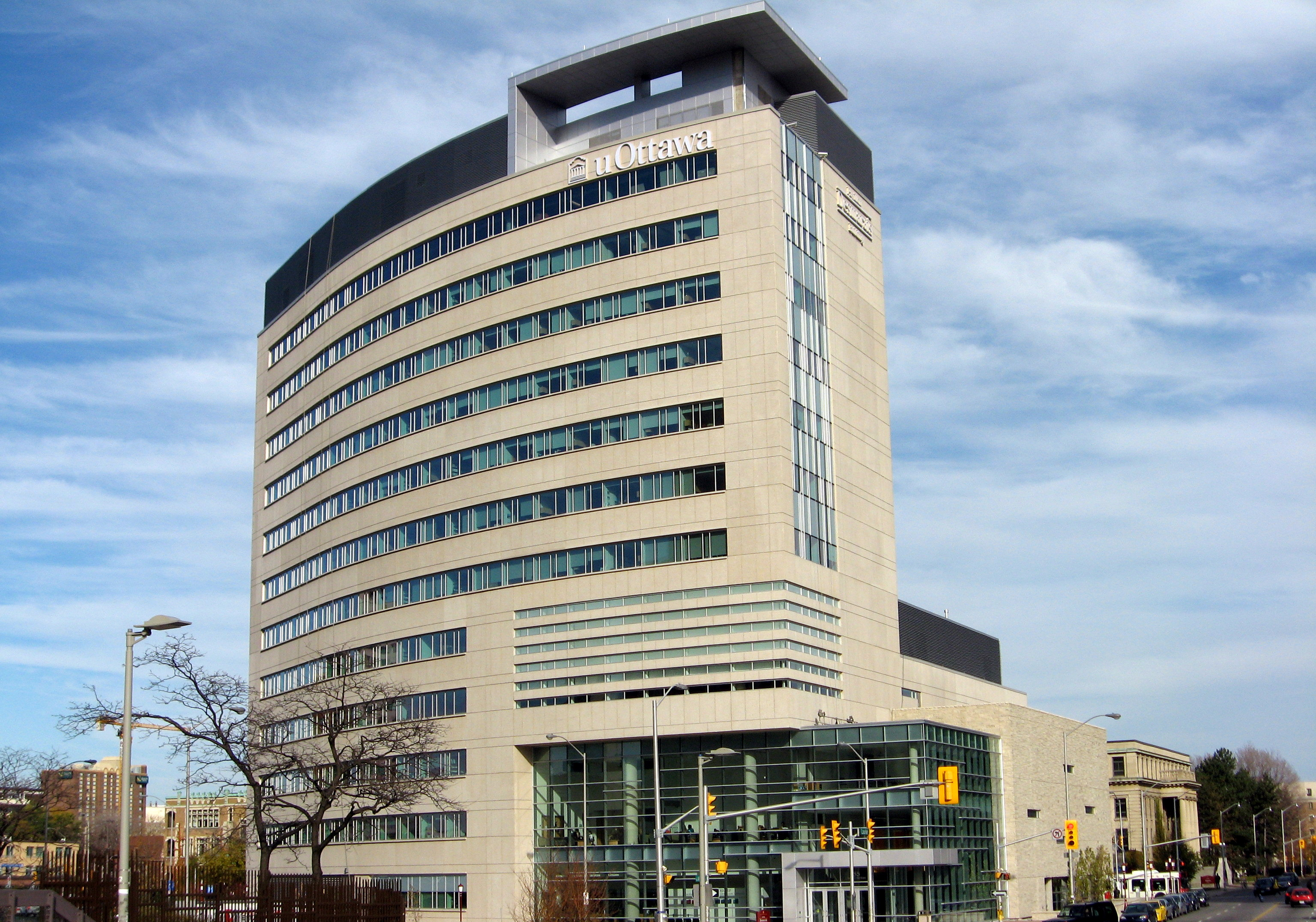 The Desmarais building at the University of Ottawa in Ottawa, Canada